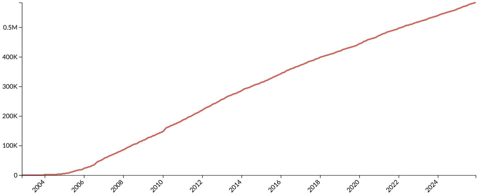 Development of the total article number on Czech WikipediaEsperanto: Evoluo de la suma artikolnombro en Ĉeĥa Vikipedio